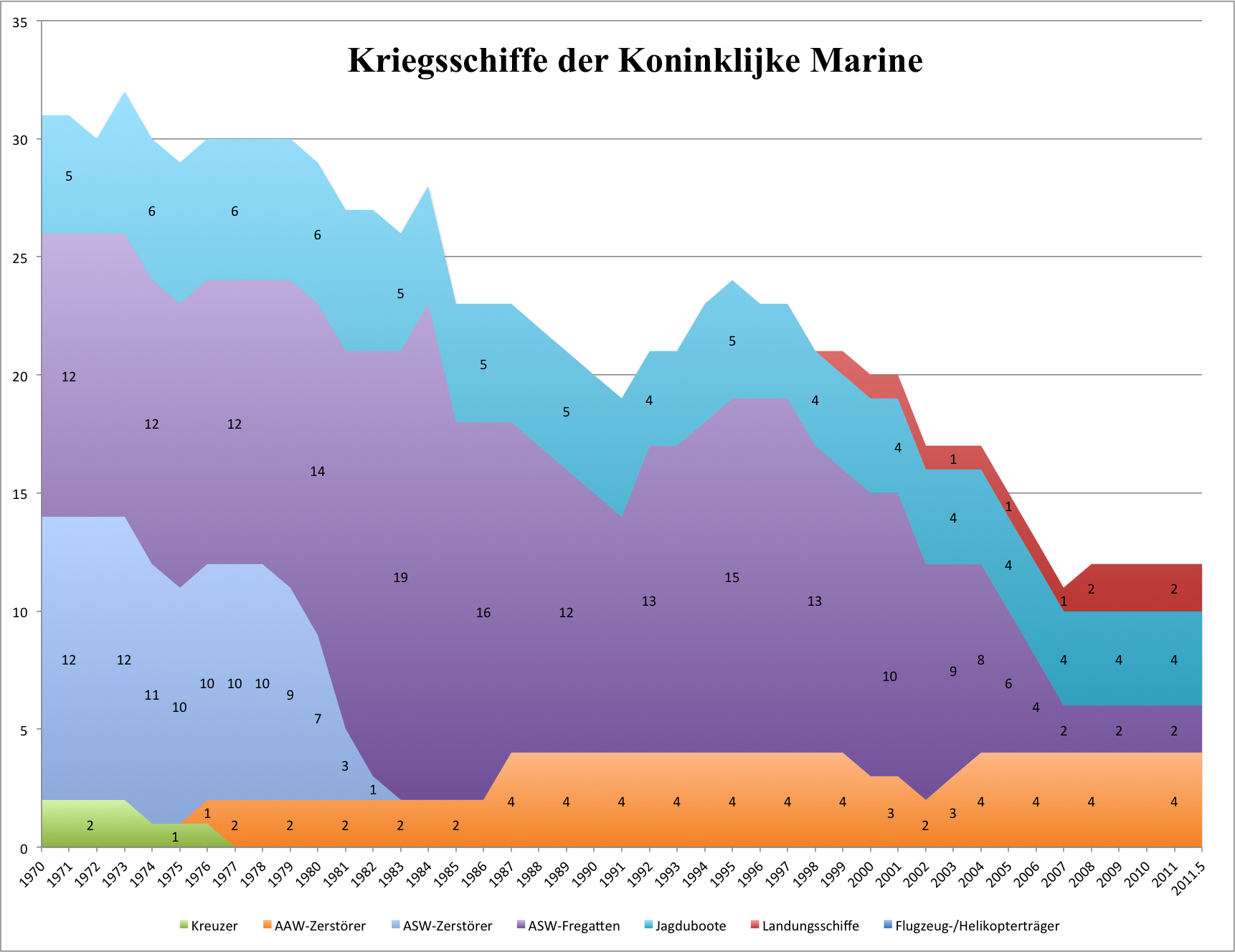 Develpment of warship numbers of the Royal Netherlands Navy (Koninklijke Marine) since 1970.